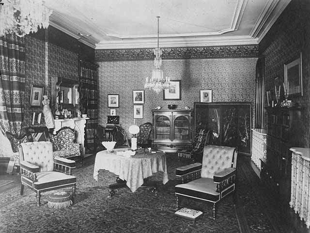 Alexander Ramsey House parlor ca. 1884.